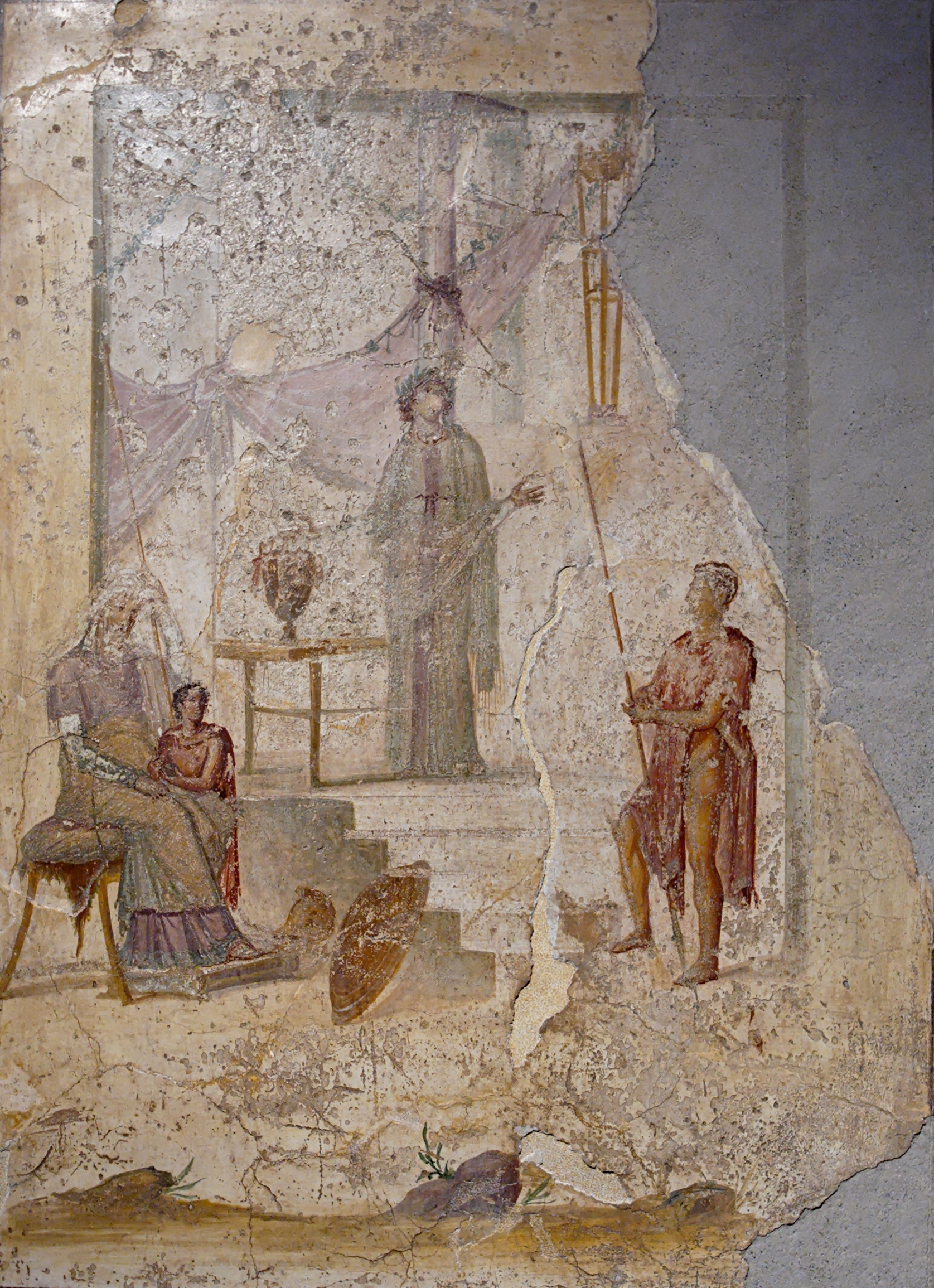 Cassandra (centre) drawing lots with her right hand predicts the downfall of Troy in front of Priam (seated, on the left), Paris (holding the apple of discord) and a warrior leaning on a spear, presumably Hector. From the House of the Metal Grill (I, 2, 28) in Pompeii.